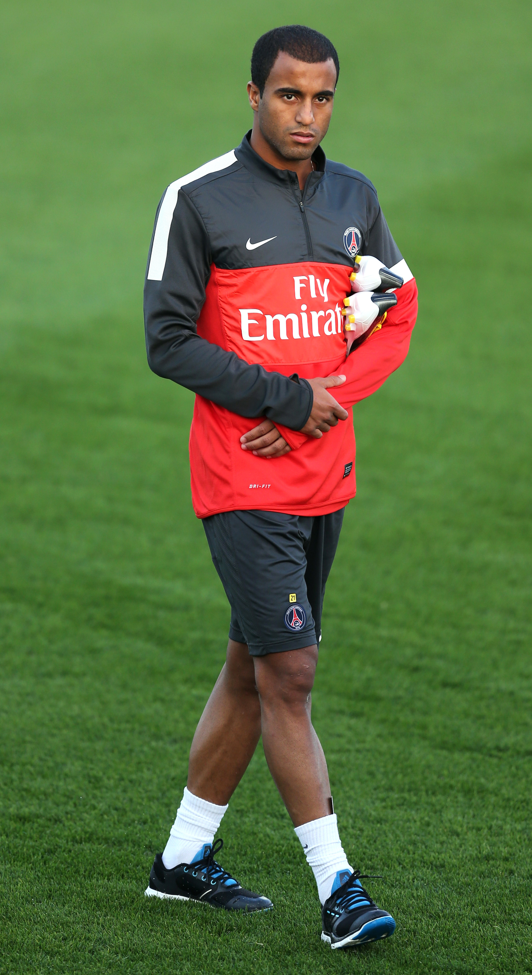 PSG's new Brazilian player Lucas Moura during a training session at the ASPIRE Academy football pitch in Doha. Pic by Mohan